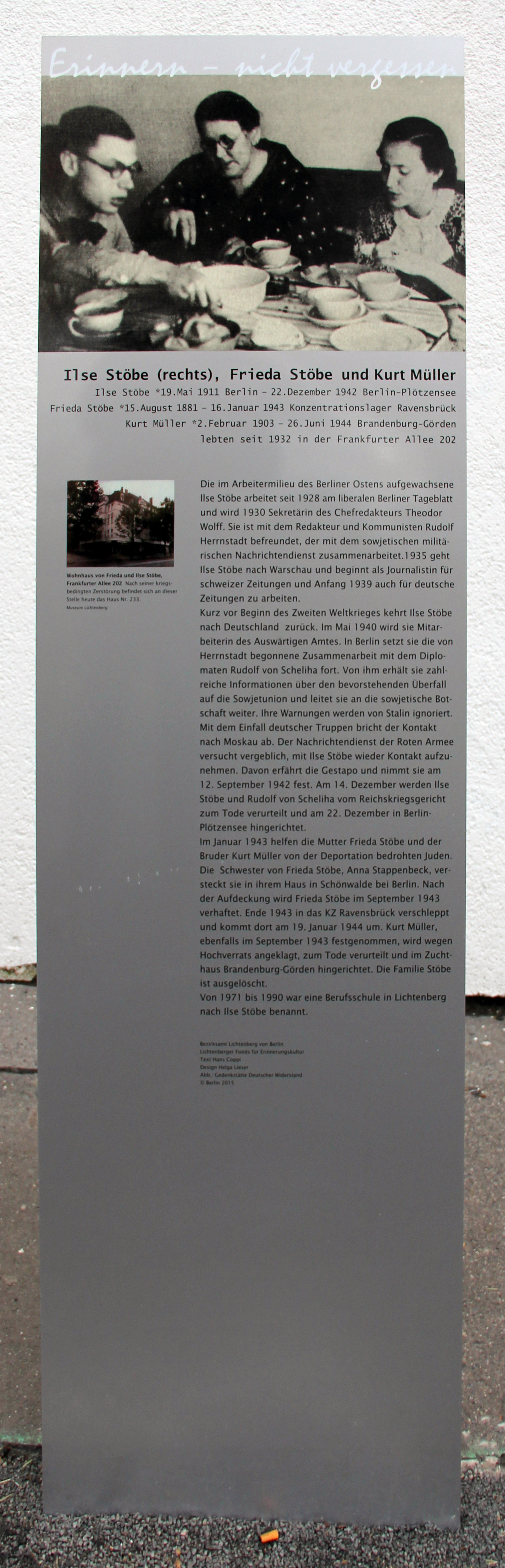 Memorial plaque, Frieda Stöbe, Ilse Stöbe and Kurt Müller, Frankfurter Allee 233, Berlin-Lichtenberg, Deutschland